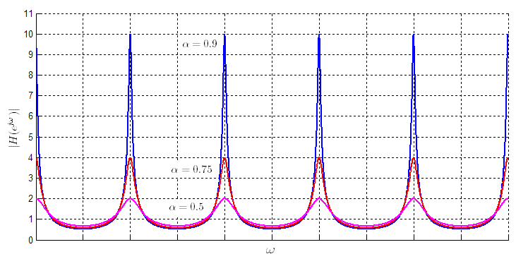 Magnitude response of feedback comb filter for positive values of